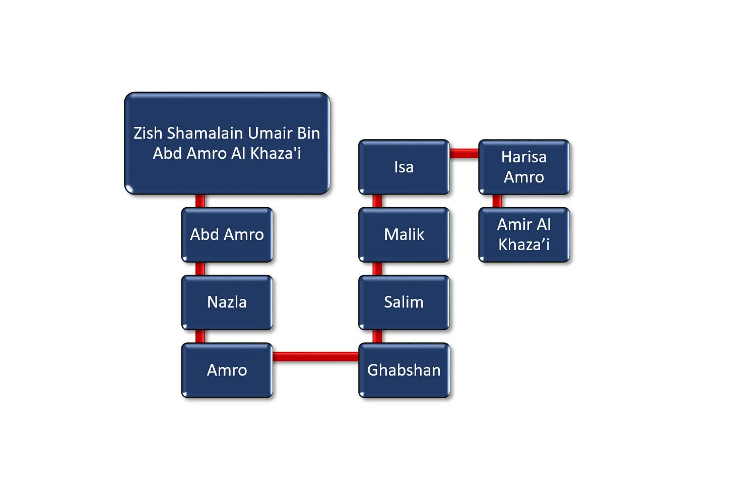 Family Tree and Lineage of the Sahabi Companion and Badry martyr Zish Shamalain Umair Bin Abd Amro Al Khazai aka Zu Shamalin bin Abdul Amroo. He was named Umair, Kunniyah Abu Muhammad, title Zi Shamaleyn. His lineage was Umair the son of Abd Amro the son Nazla the son of Amro the son of Ghabshan the son of Salim the son of Malik the son of Isa the son of Harisa Amro the son of Amir Al Khaza’i